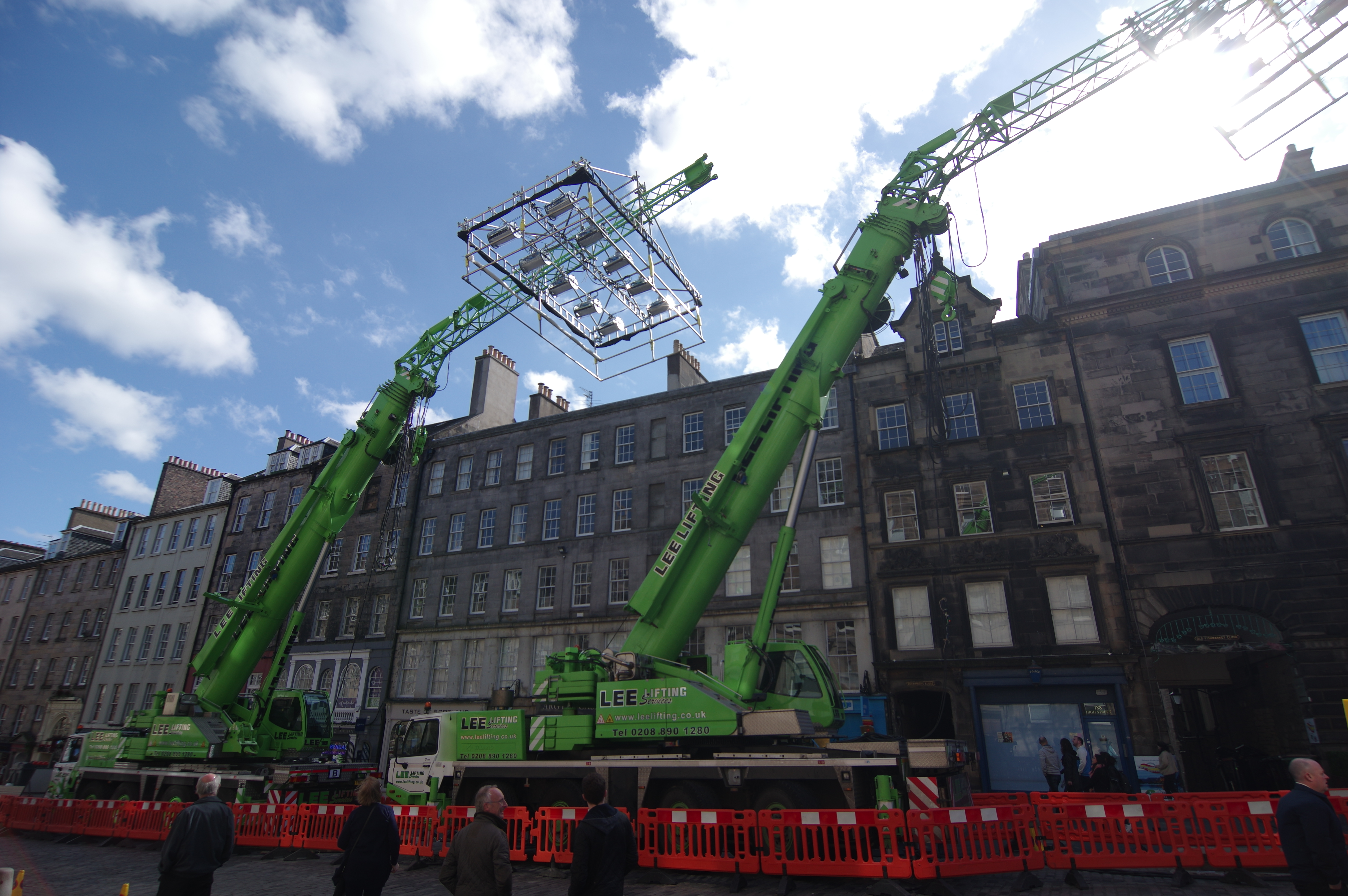 Lee Lifting Tadano Cranes on the Royal Mile in Edinburgh with lighting rigs for the film, Avengers: Infinity War